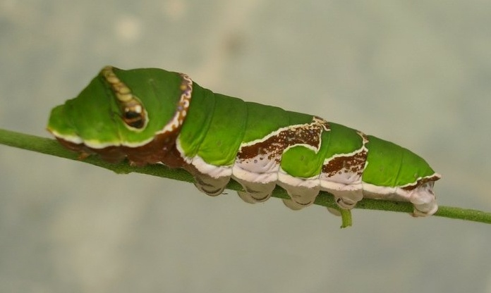 Papilio polytes caterpillar